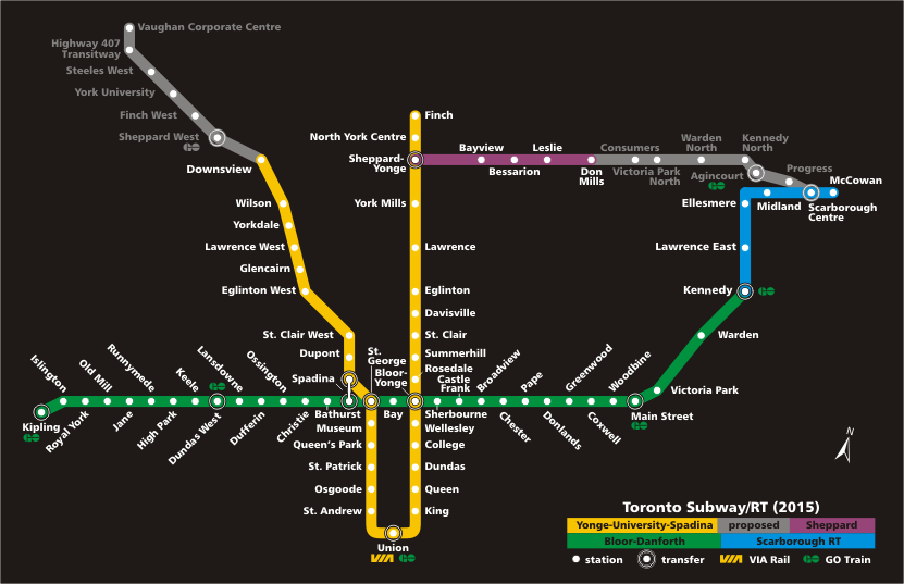 Toronto TTC subway/RT map: proposed (2015) - updated Created by E Pluribus Anthony, updated from Image:TTCsubwayRTmap-2015.png by Psychlopaedist